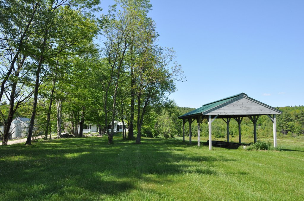 View of the Lamson Farm house and horse feeding station in Mont Vernon, New Hampshire.